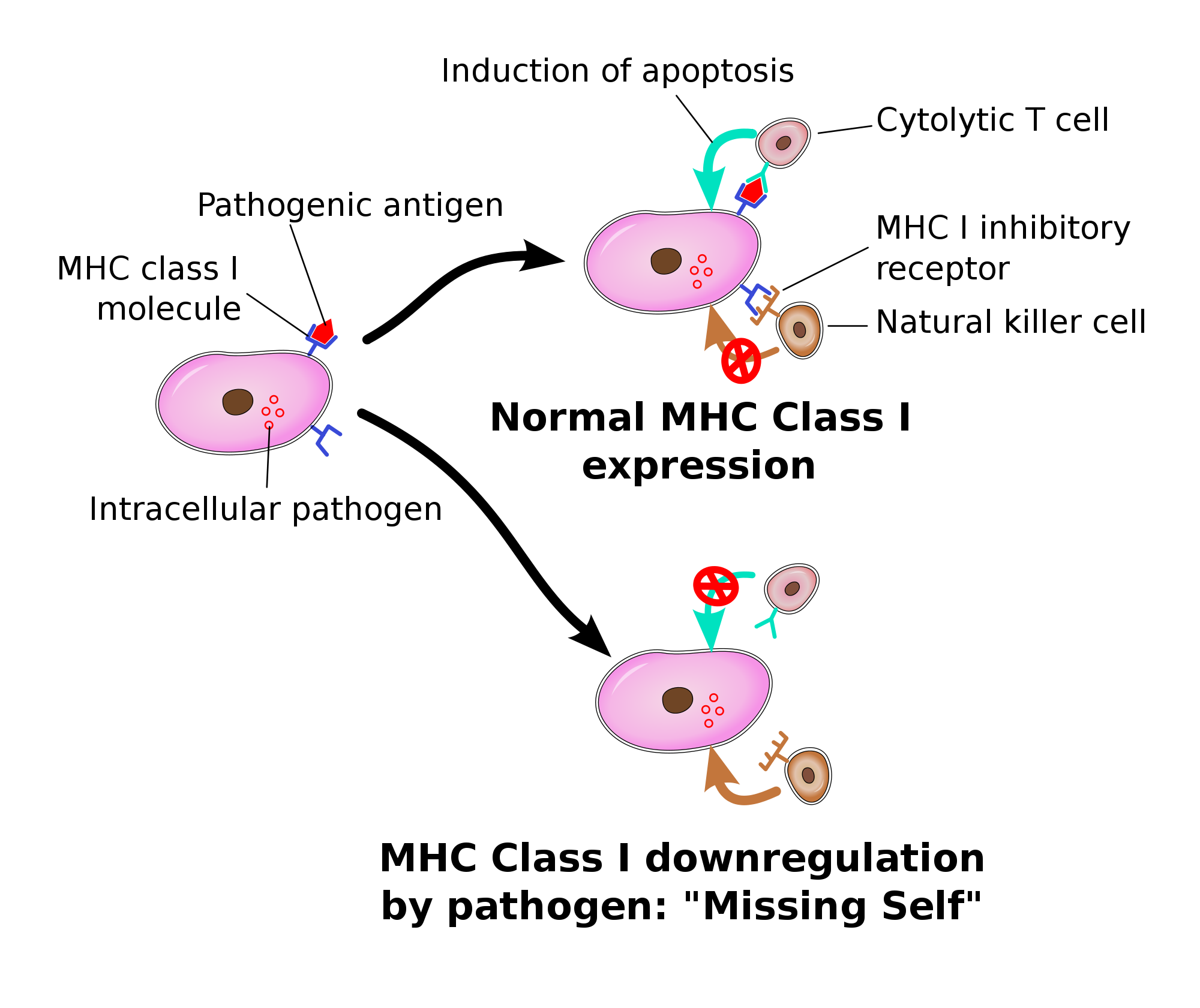 Cacofonie, December 19, 2007